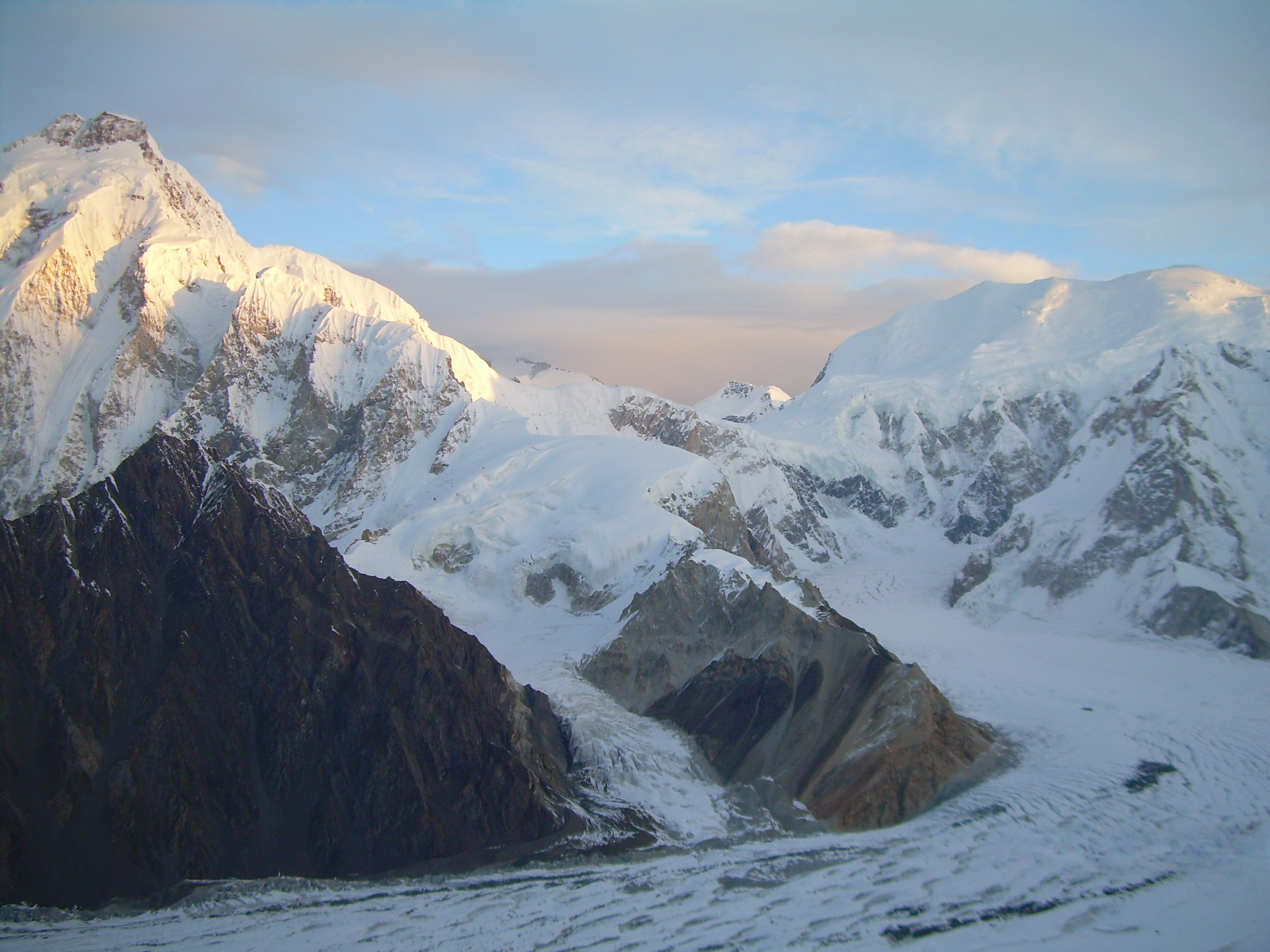 South faces of Baltoro Kangri (left) and Sia Kangri (right) from Kondus glacier. They are connected by the Conway Saddle.